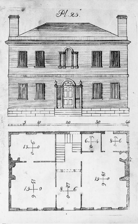 Federal style design for a house -- Plate No. 25